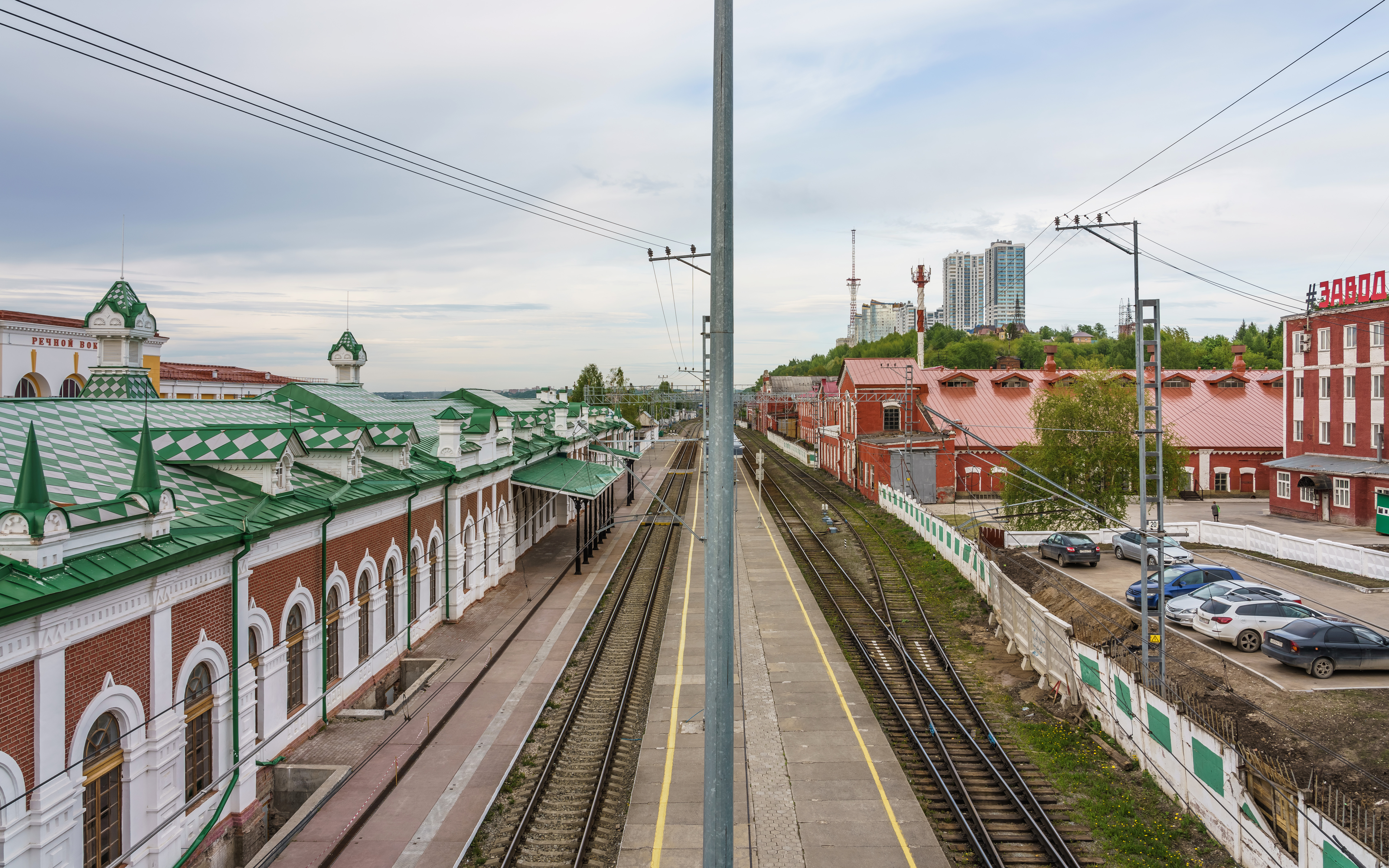 Perm-I railway station in Perm, Russia